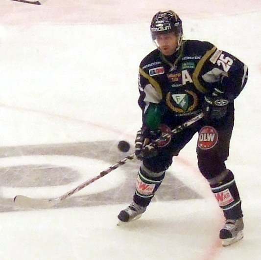 Ice hockey player Thomas Rhodin of Färjestads BK during the Swedish Elite League game Timrå IK-Färjestads BK (4-6) in E.ON Arena, Timrå, Sweden